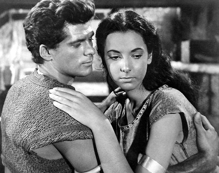 Dewey Martin and Luisella Boni in Land of the Pharaohs (1955) - publicity still (cropped)